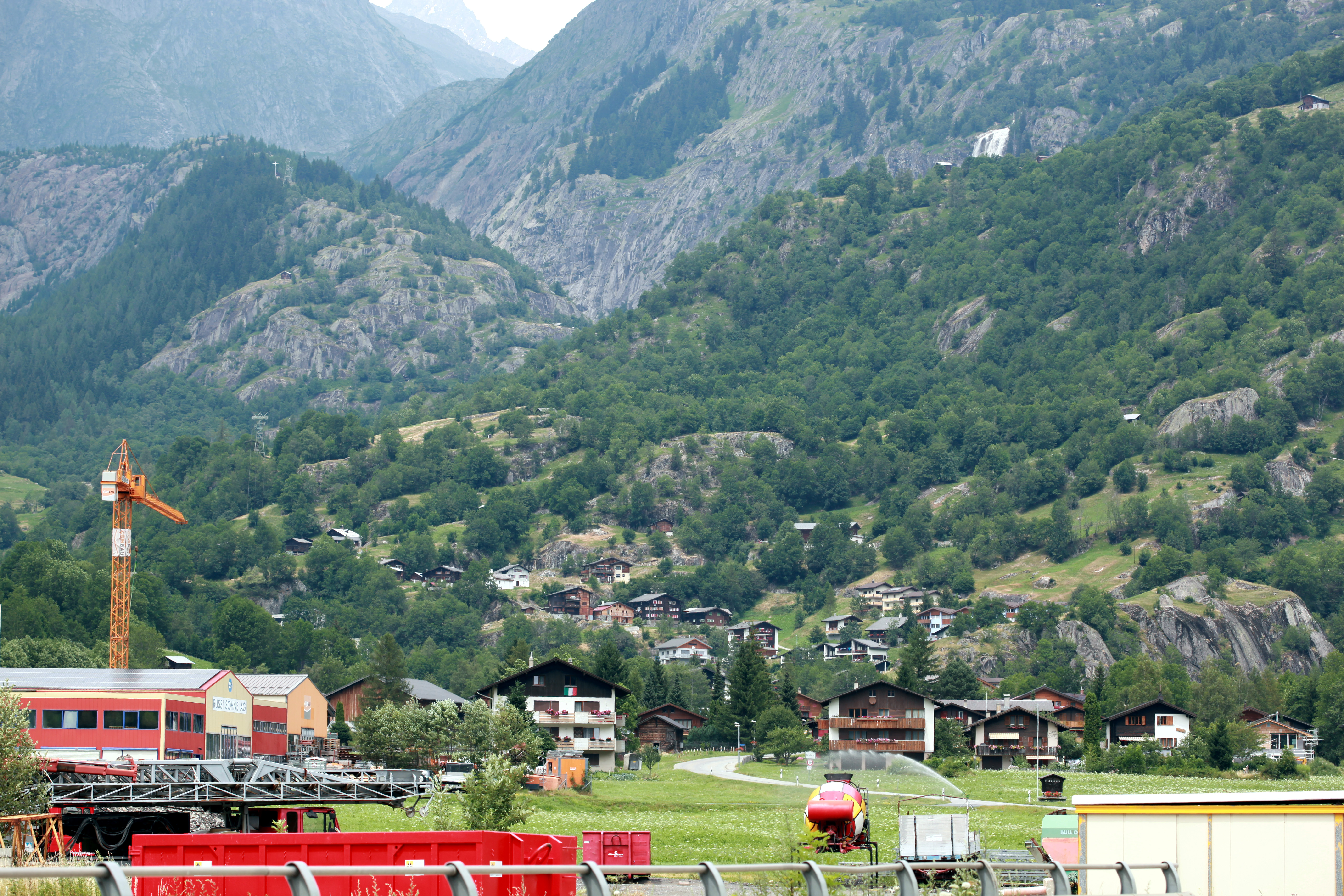 Fieschertal in Valais (Switzerland). Seen from Fiesch